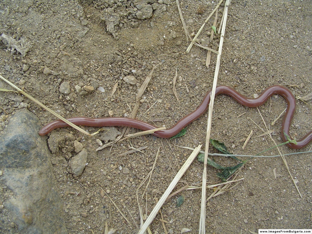 Typhlops vermicularis in Bulgaria